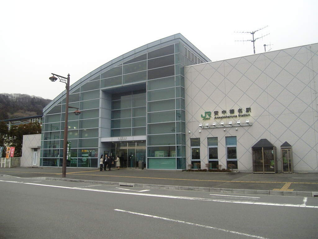 Annaka-haruna Station on the Nagano Shinkansen